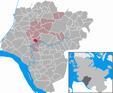 This map shows the area of the municipality Bekmünde in the Kreis (district) Steinburg, Schleswig-Holstein, Germany.